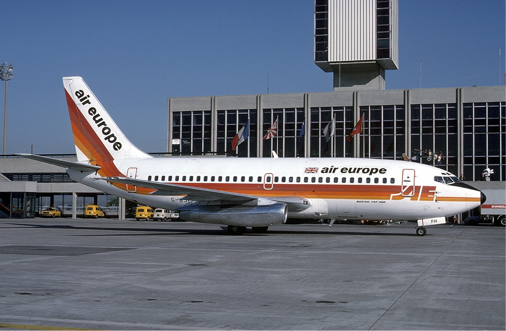 G-BJFH, Air Europe Boeing 737-200, Euroairport